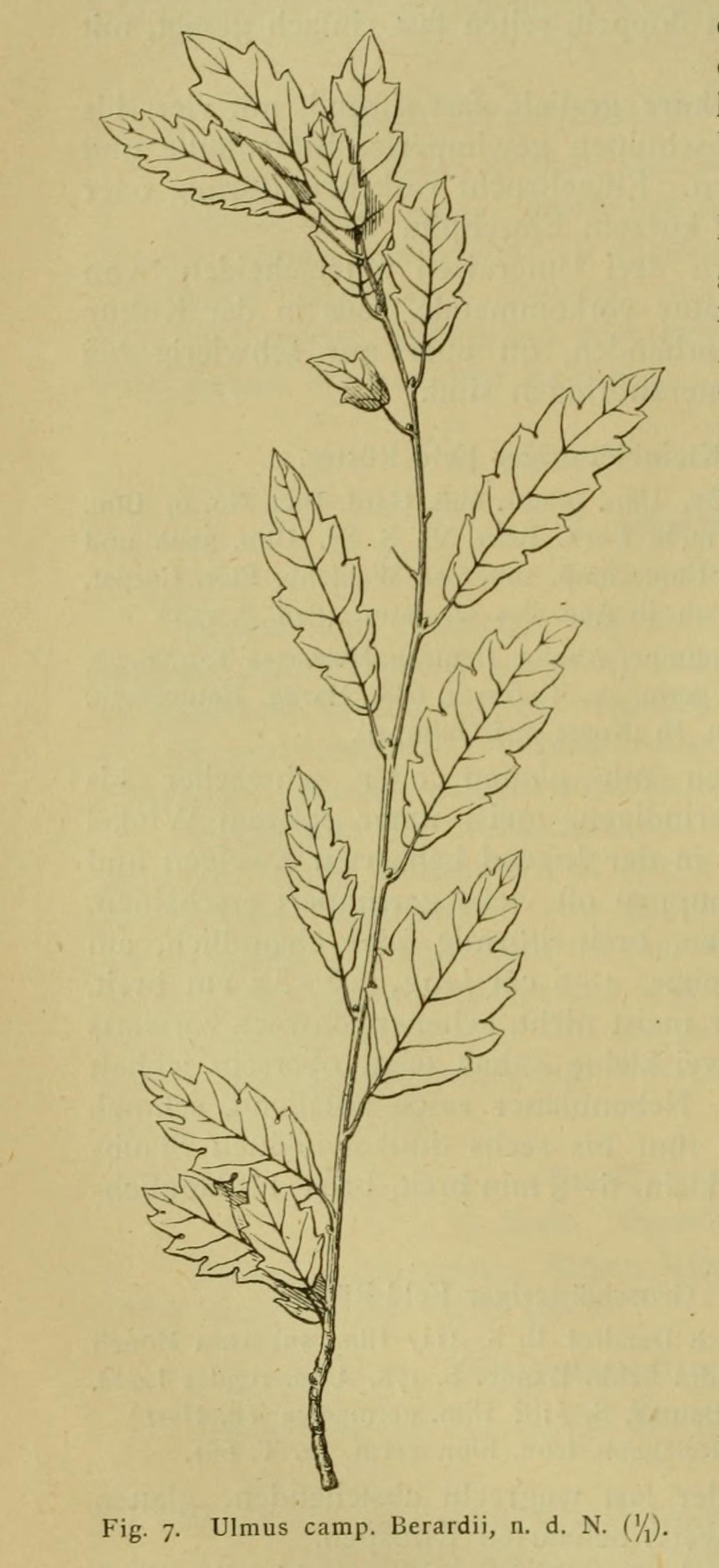 Fig. 7 Ulmus camp. Berardii